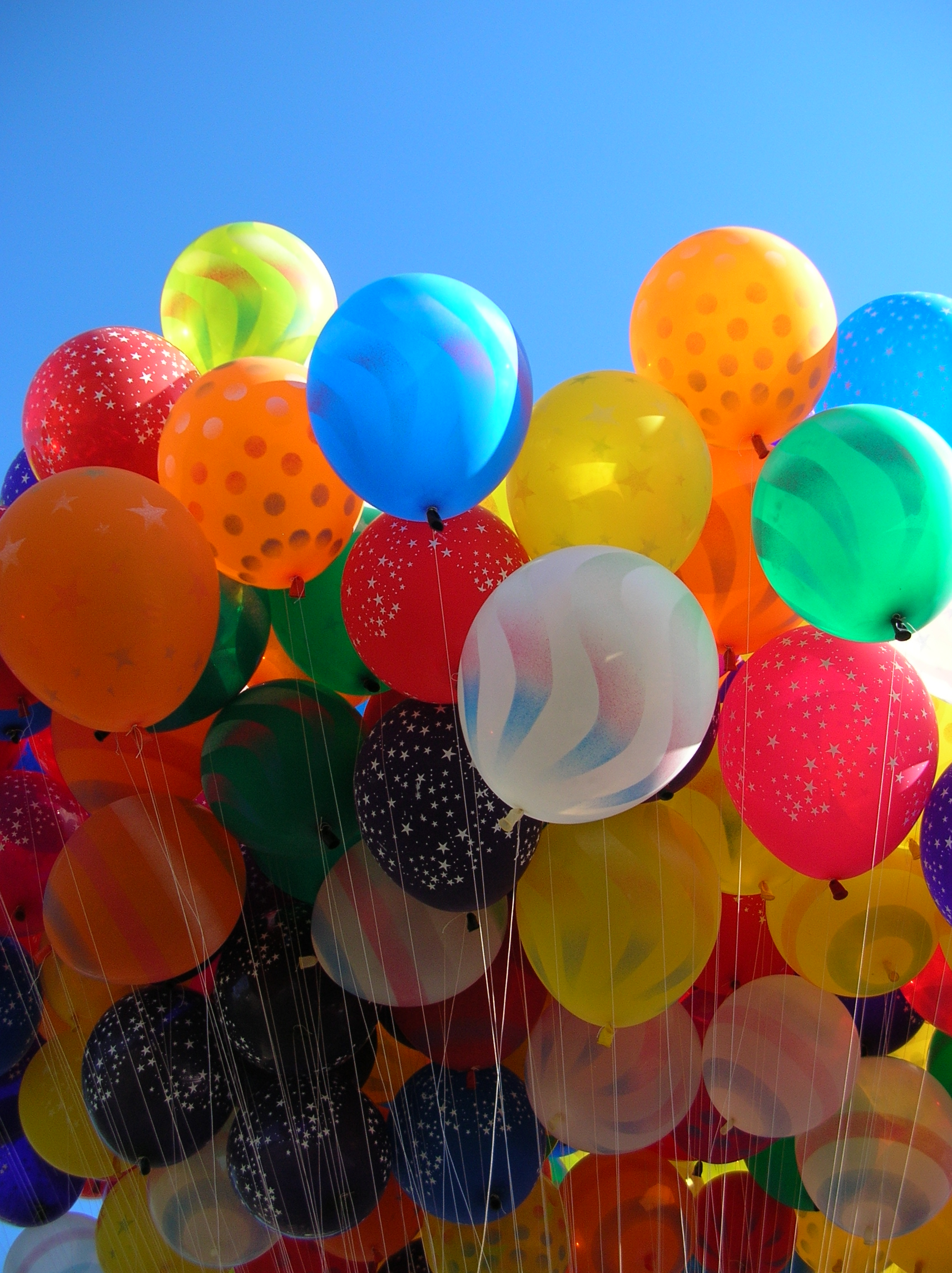 Colourful, patterned ballons rising towards the sky. From Peoria Balloon Fest. (Later note: From photographer's other photos, this appears to be the 2006 Peoria Baloon Fest at William H. Sommer Park on the west edge of Peoria in Kickapoo Township, Peoria County, Illinois.)Balloons